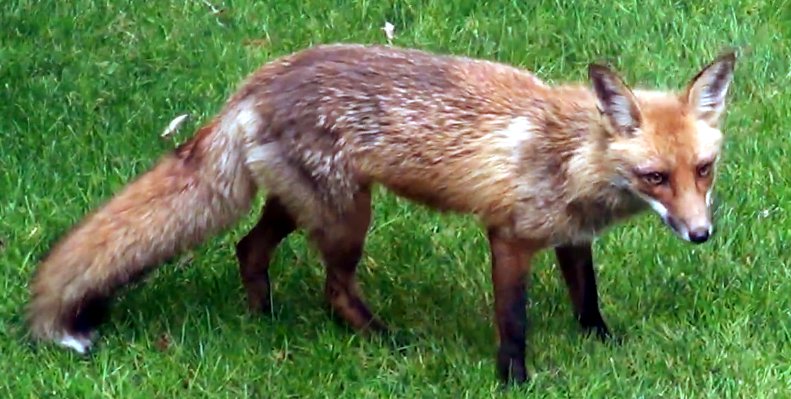 North American red fox from east coast, USA